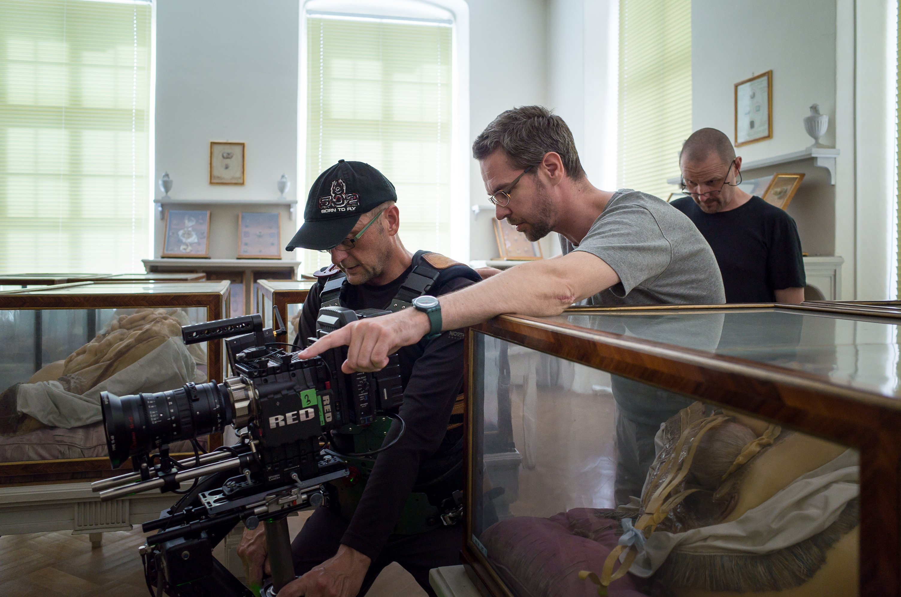 Left to right: Steadicam Operator Thomas Maier, Director Michael Madsen and DOP Heikki Färm at the shooting of THE VISIT